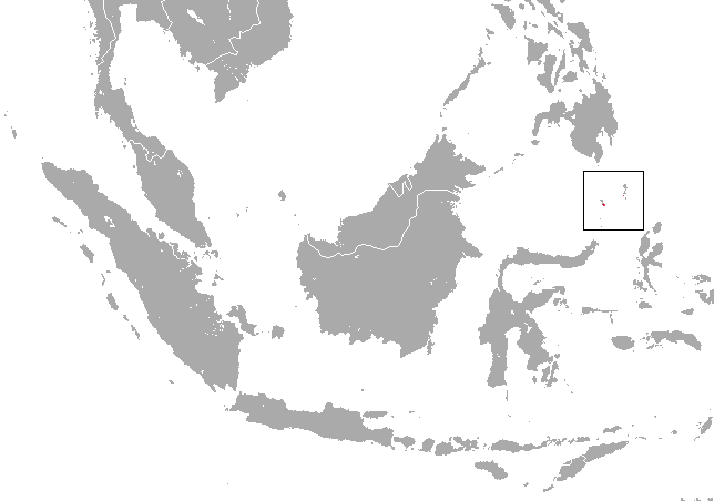 Talaud Bear Cuscus (Ailurops melanotis) range